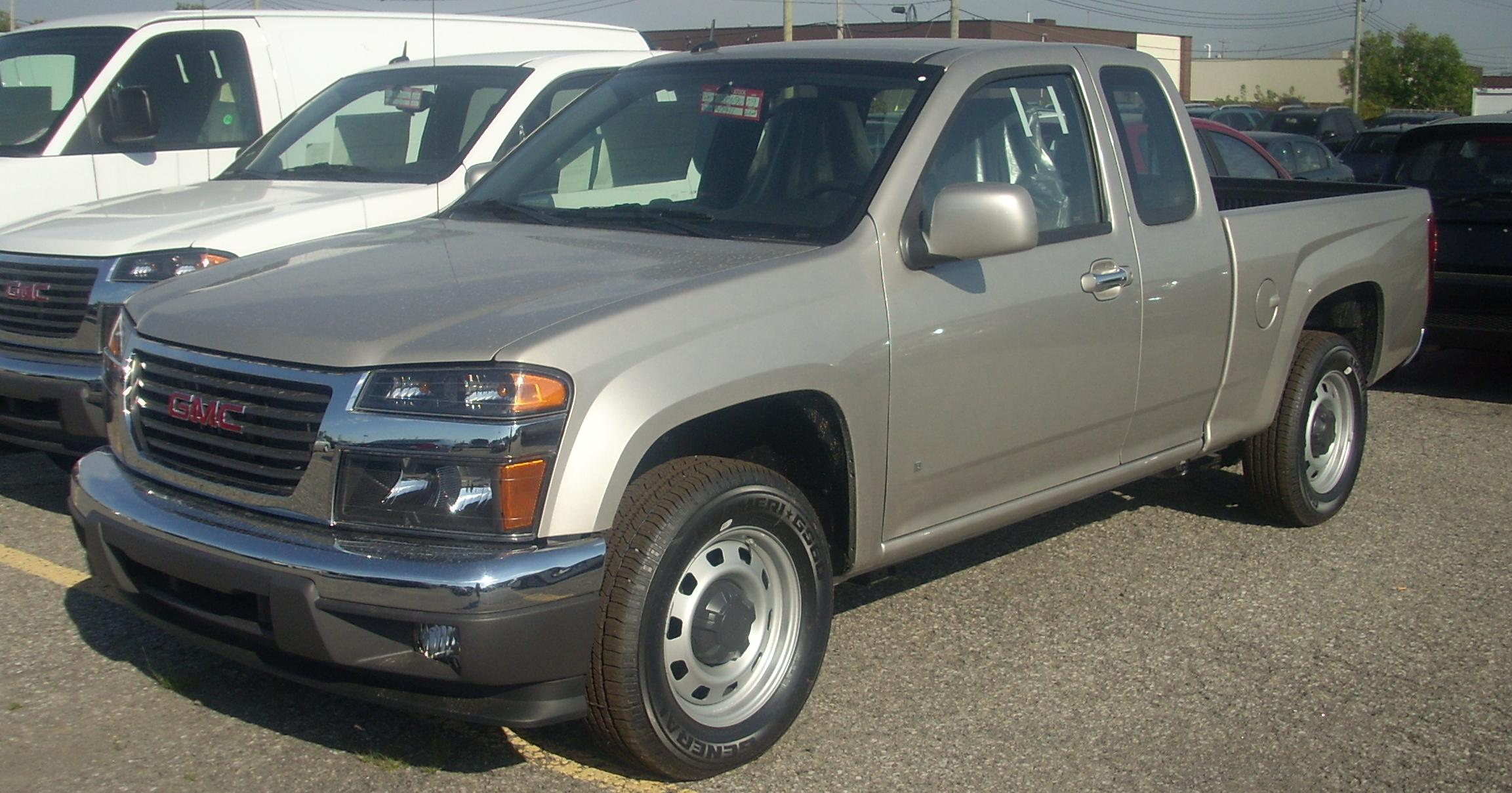 2009 GMC Canyon photographed in Montreal, Quebec, Canada.